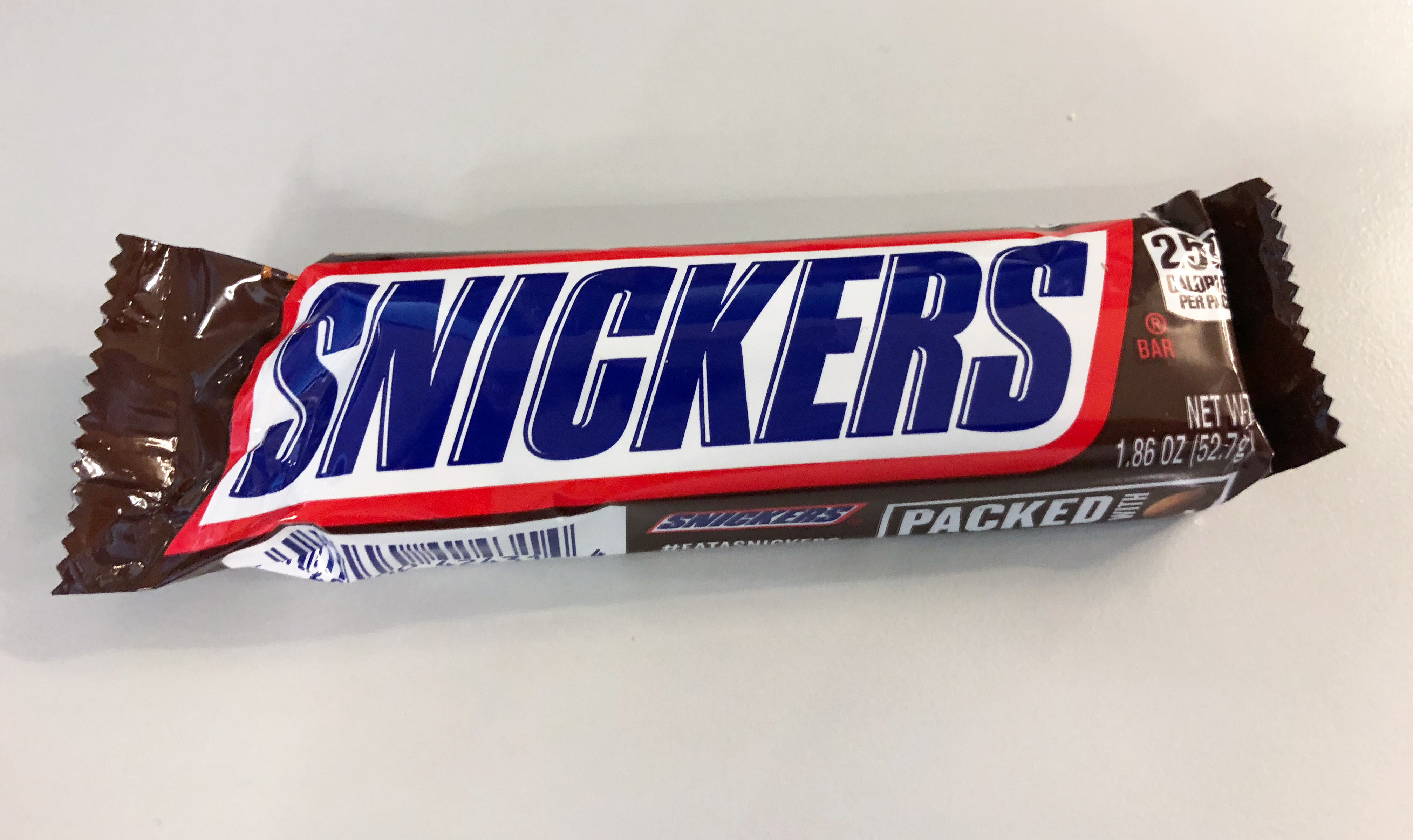 A Snickers bar with the wrapper still intact in the Dulles section of Sterling, Loudoun County, Virginia